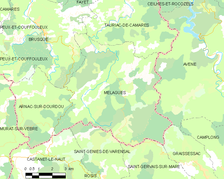 Map commune FR insee code 12143.png - Mélagues